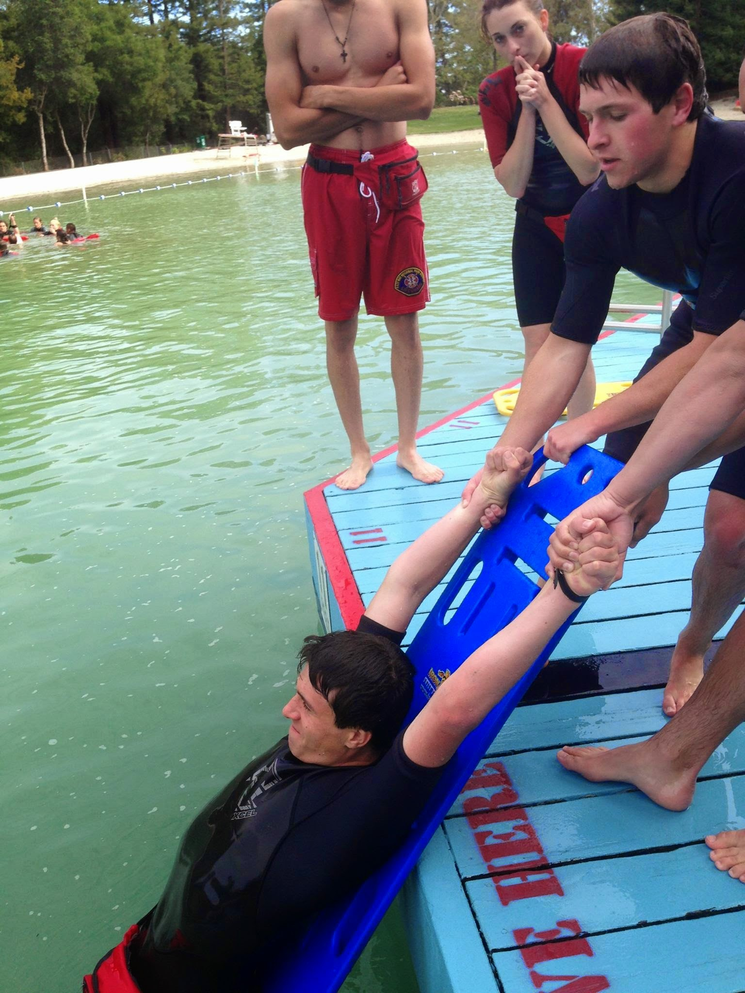 Training at Cull Canyon's lagoon. This exercise was to practice extricating a victim who has spinal injury out of a pool using a spine board.